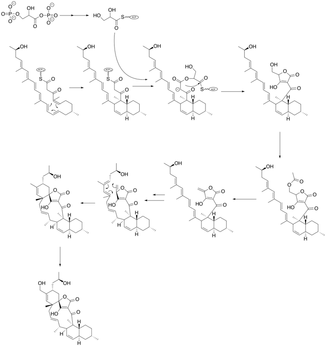 Proposed biosynthetic pathway for maklamicin